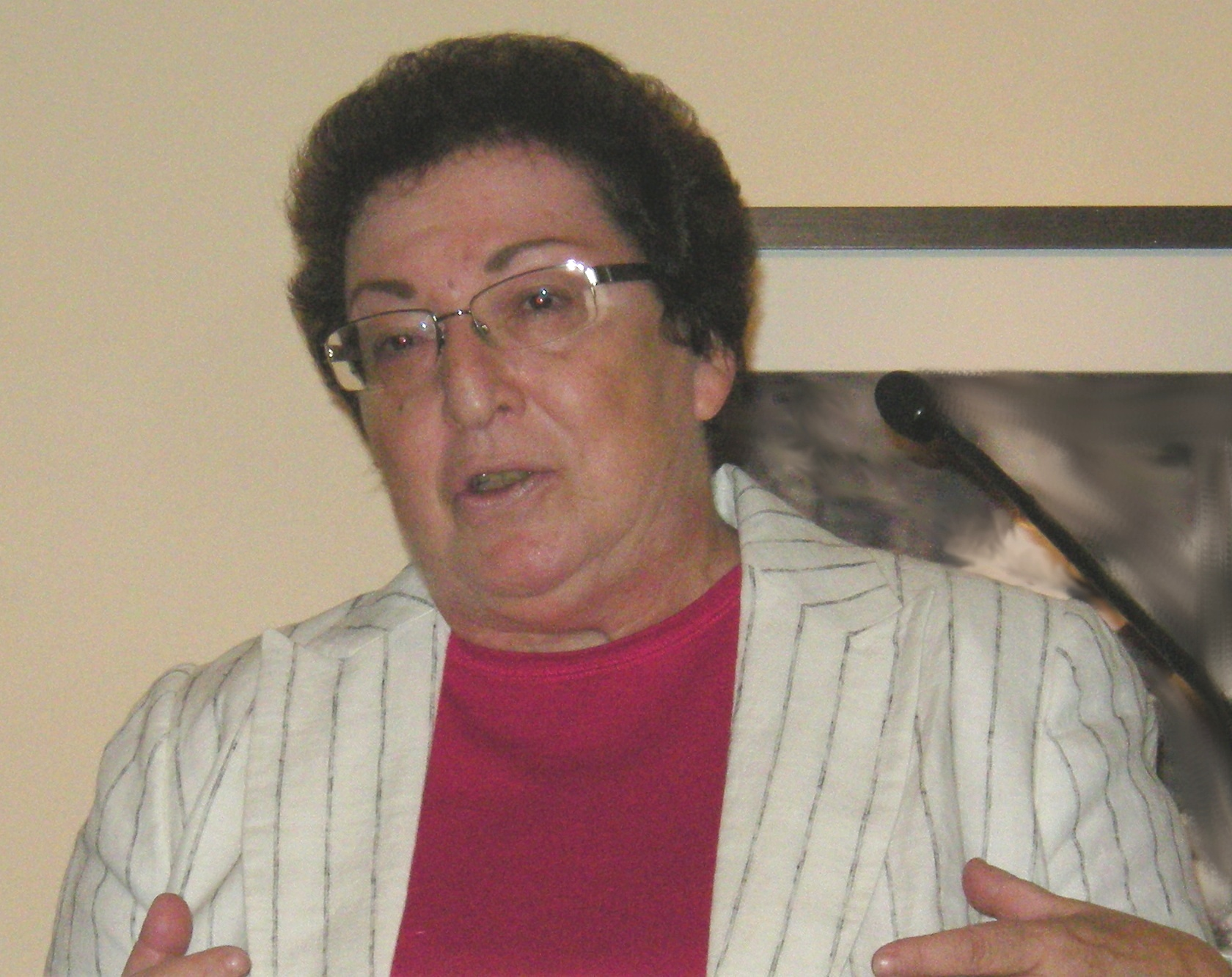 Naomi Chazan (Hebrew: נעמי חזן) Professor of Political Science and former member of the Israeli Knesset, speaking at the Museum of History and Industry, Seattle, Washington. Cropped from my original photo to remove distracting elements, and part of the background blurred to suppress a copyrighted photo that was behind her left shoulder.